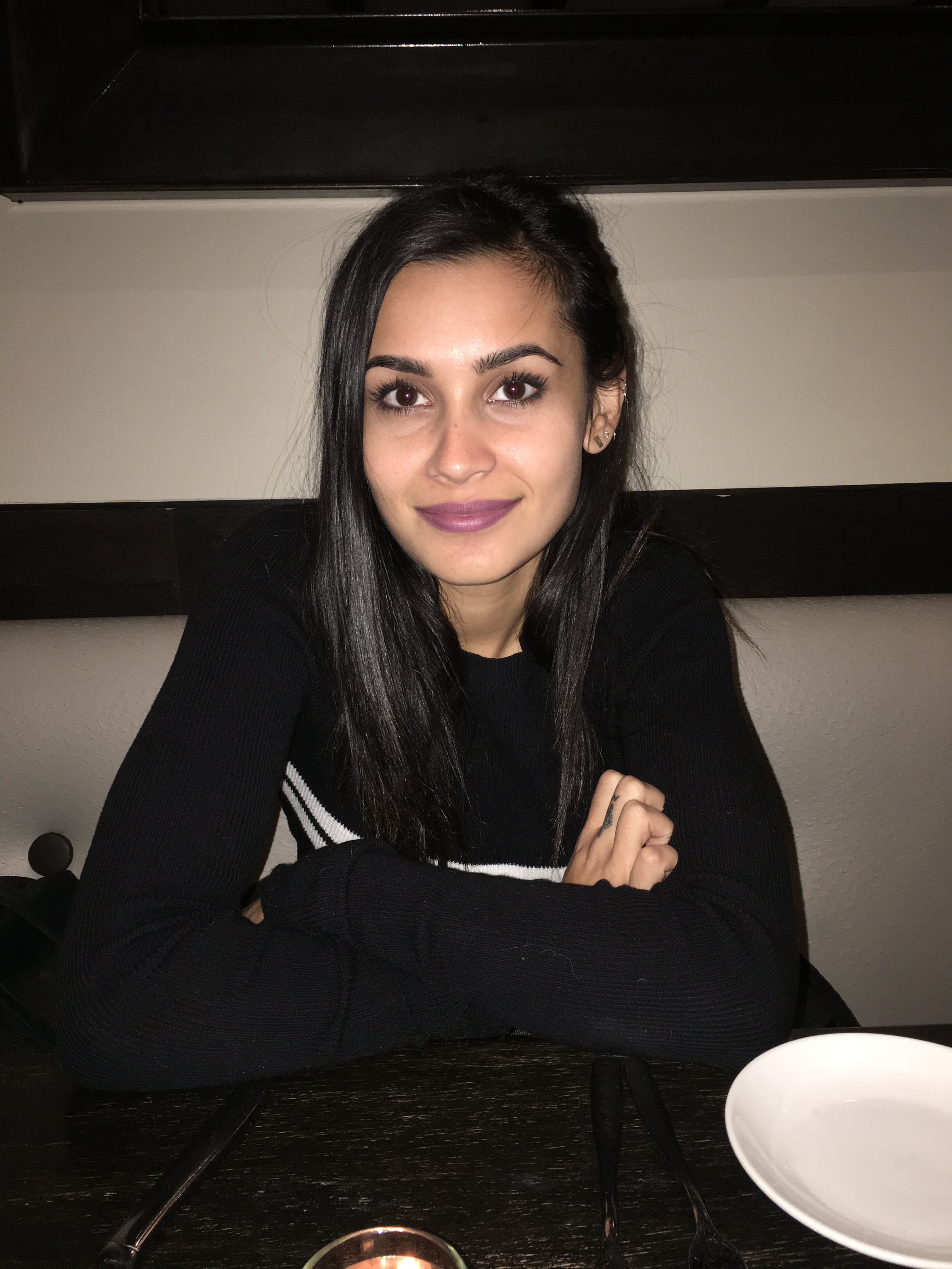 Actor Sophia Ali